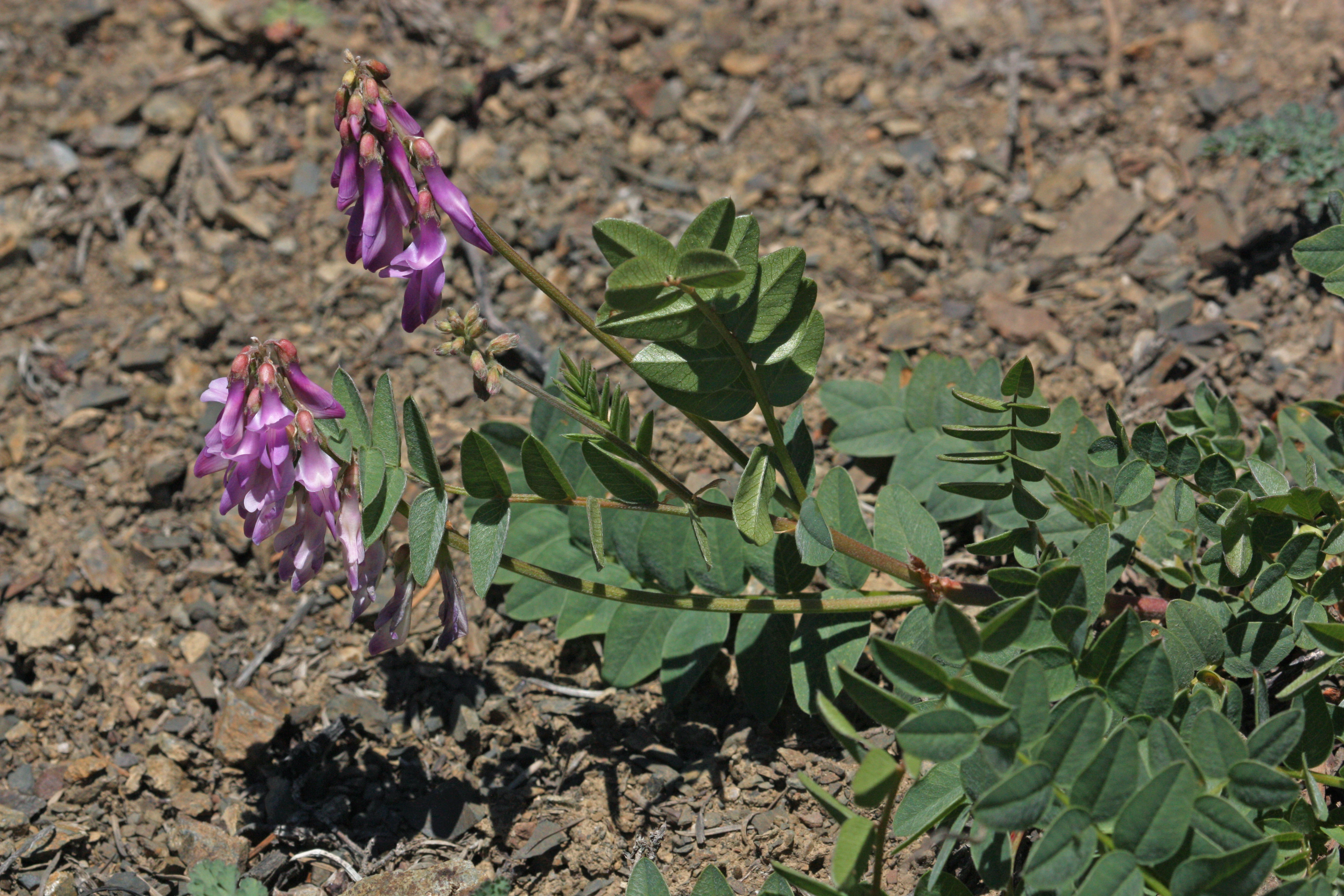 Western Sweet-vetch Viewpoint location: Deer Ridge Trail, Olympic National Park Viewpoint elevation: 1629 meter (5344 ft) Location source: Garmin GPSmap 60CSx Location Datum: WGS84